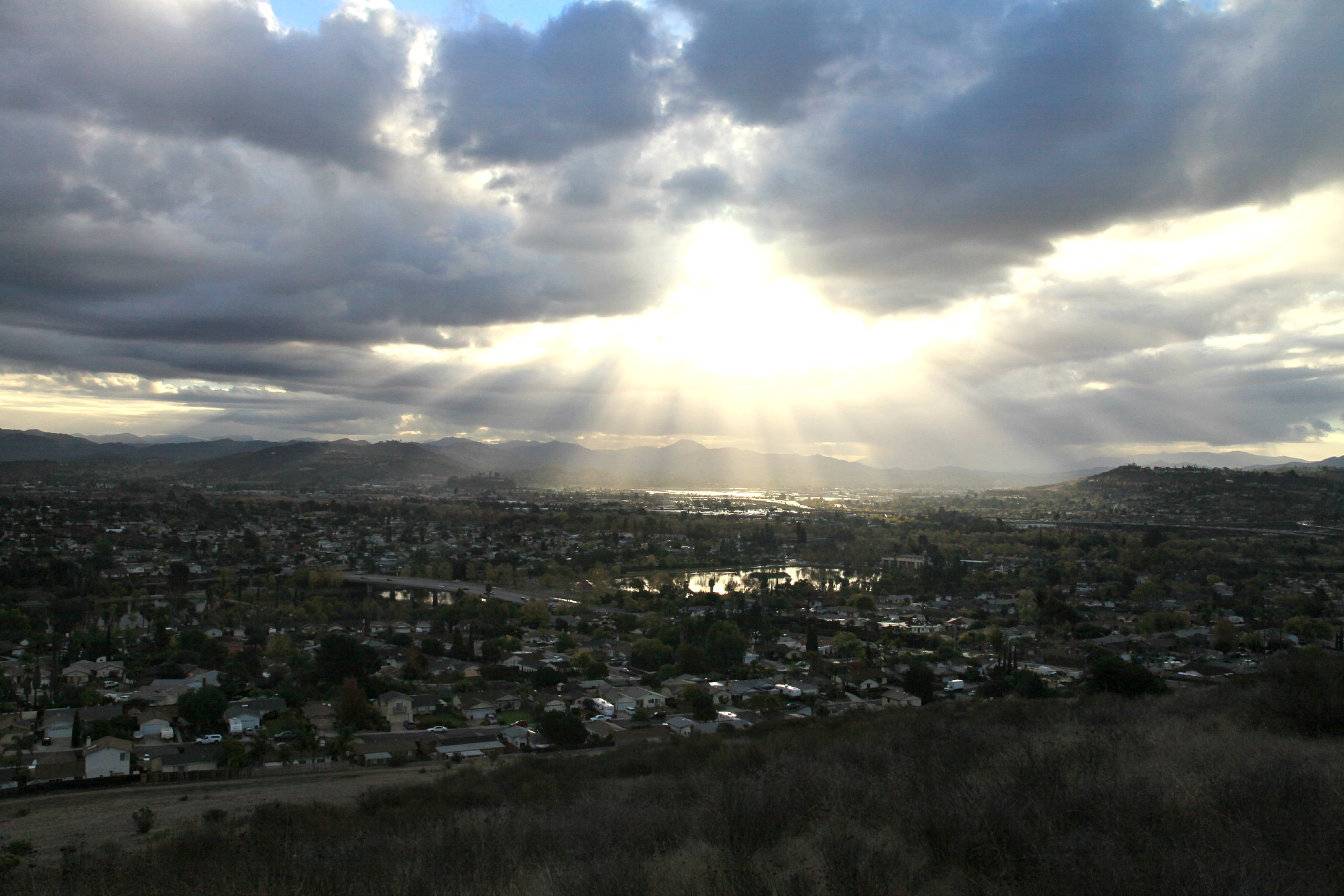 Scenic view of Santee, CA looking east